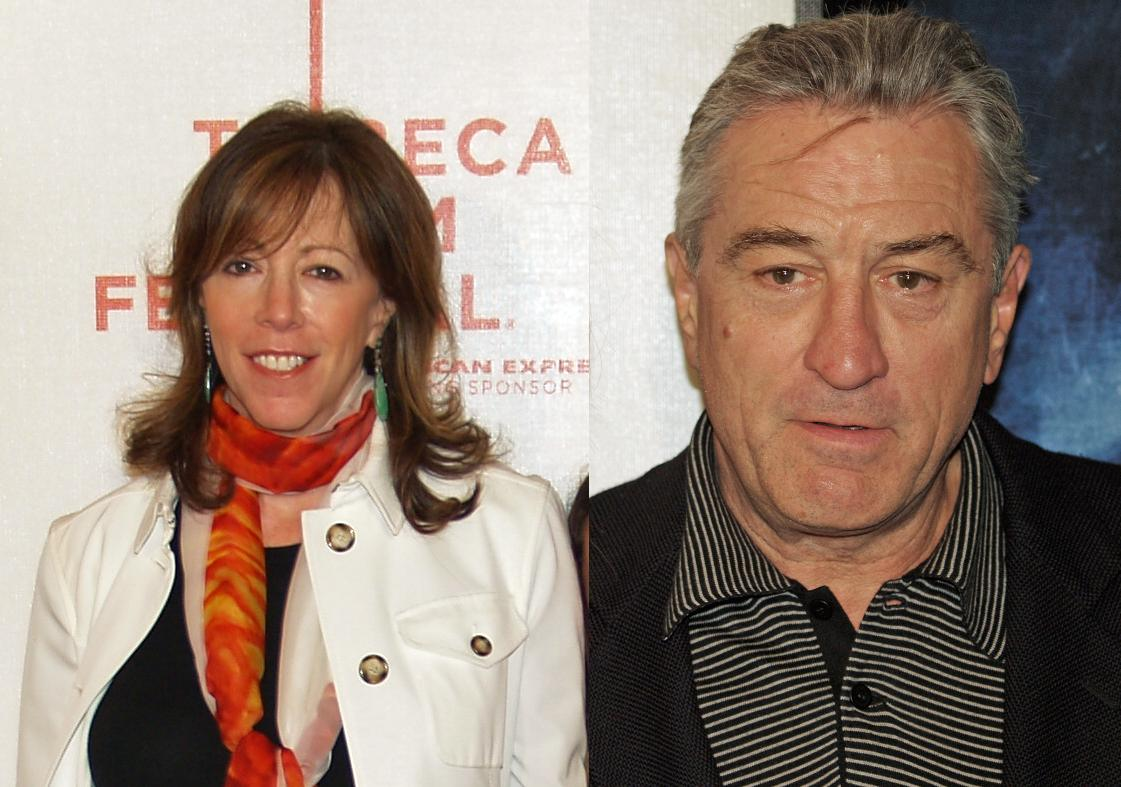 Tribeca Film Festival founders Jane Rosenthal and Robert De Niro